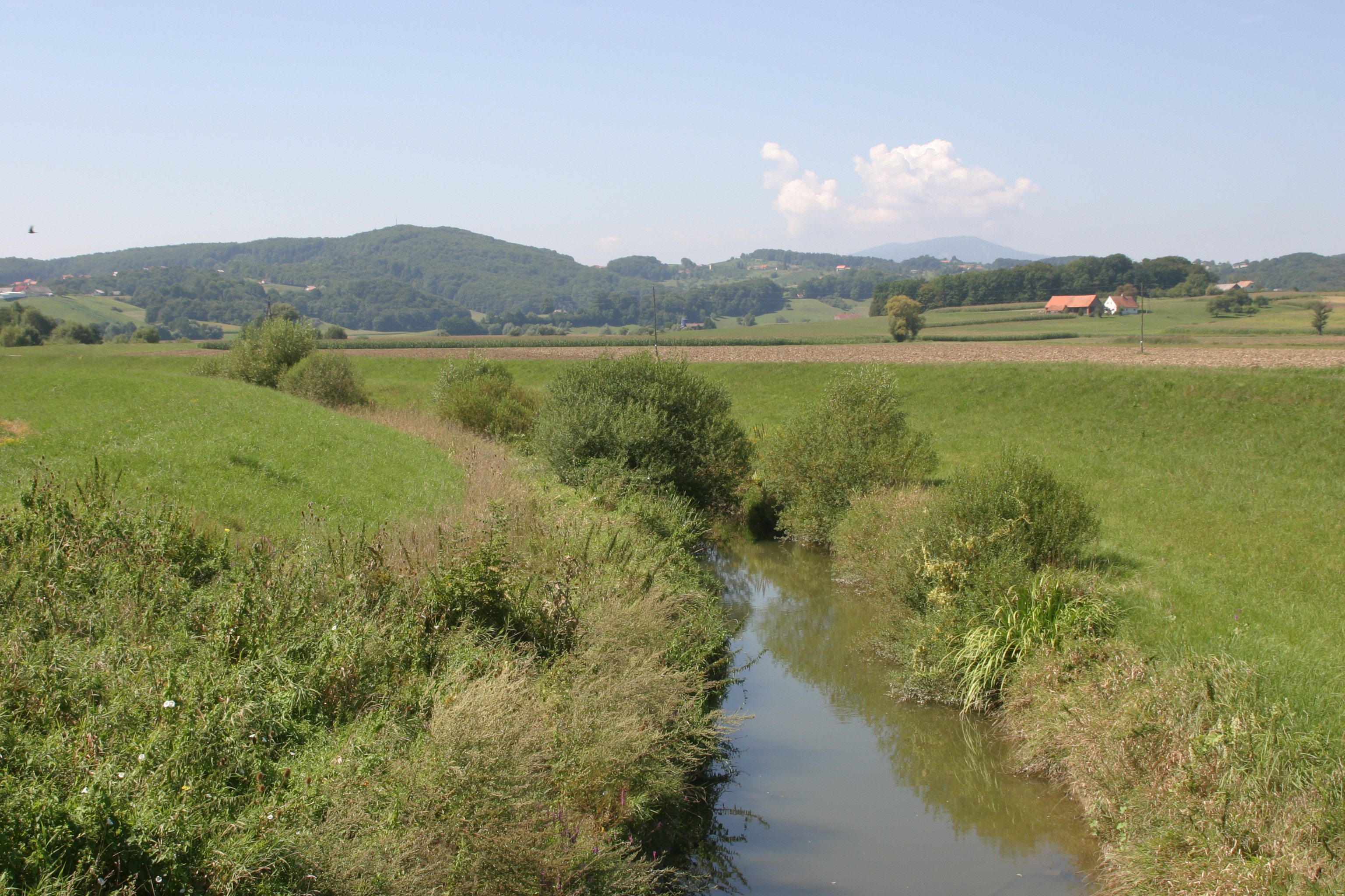 Pesnica River near the village Hrastovec